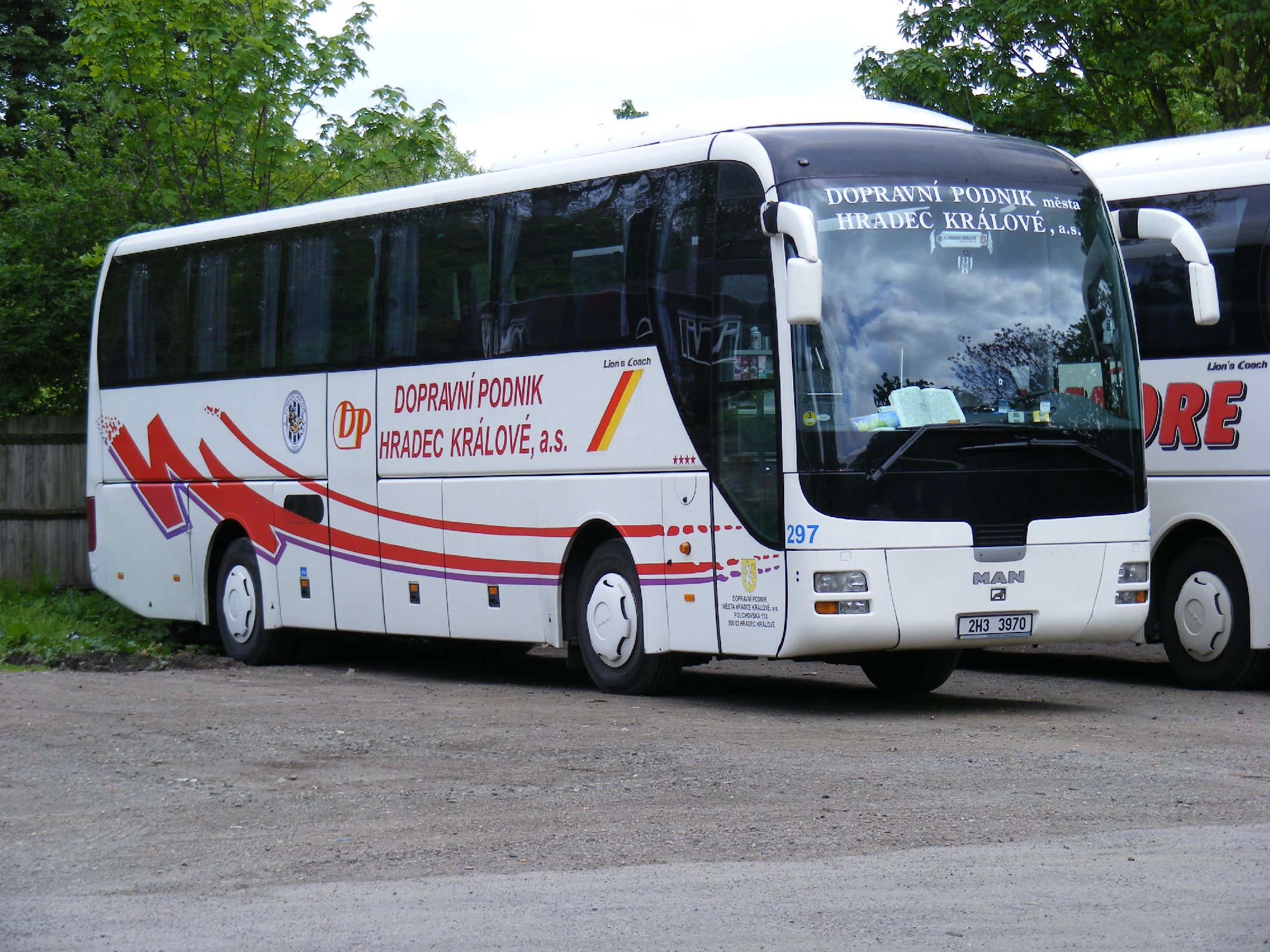 2H3 2970, MAN Lion's Coach of DP Hradec Kralove, Czech Republic. Fleet nr 297. History of this municipal operator here, including some super photos.